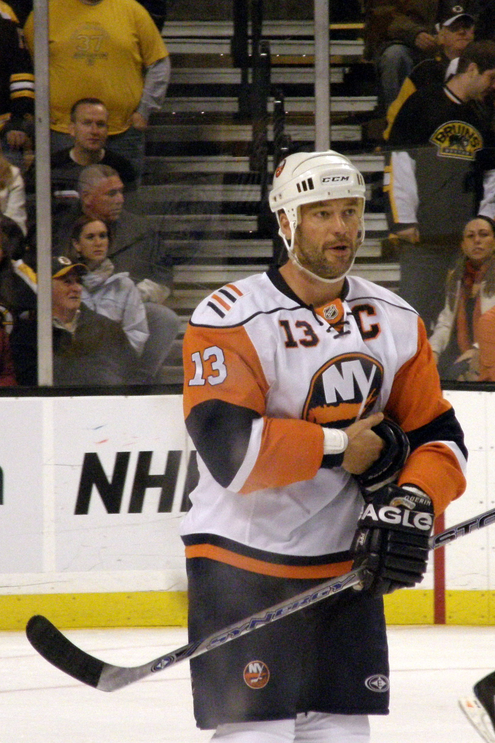 13 Bill Guerin -- was chippy all day